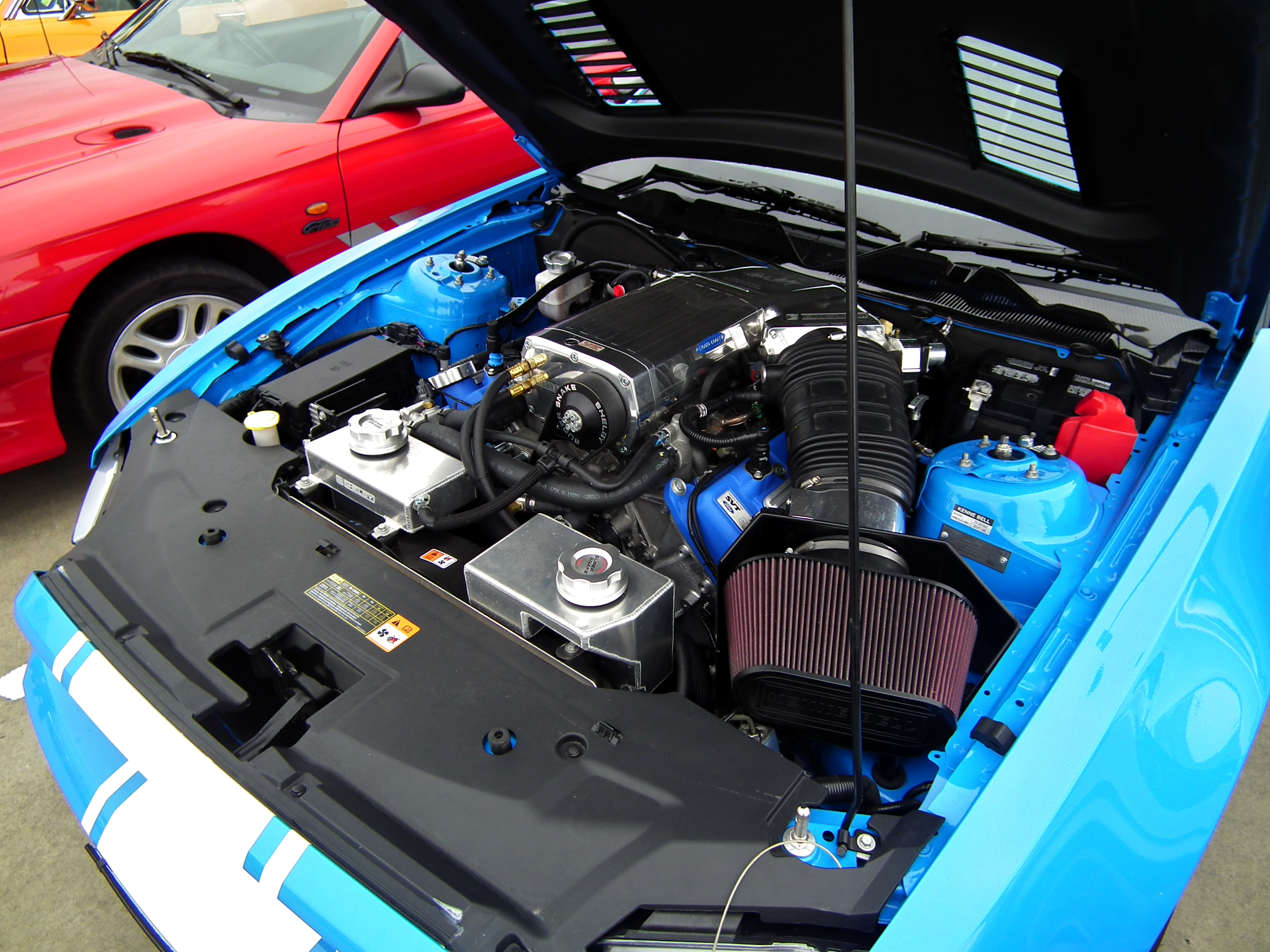 2012 Ford Mustang Shelby GT 500 Super Snake coupe engine. Taken at the 2013 New South Wales All American Day, held at Castle Towers Shopping Centre, Castle Hill, Sydney.